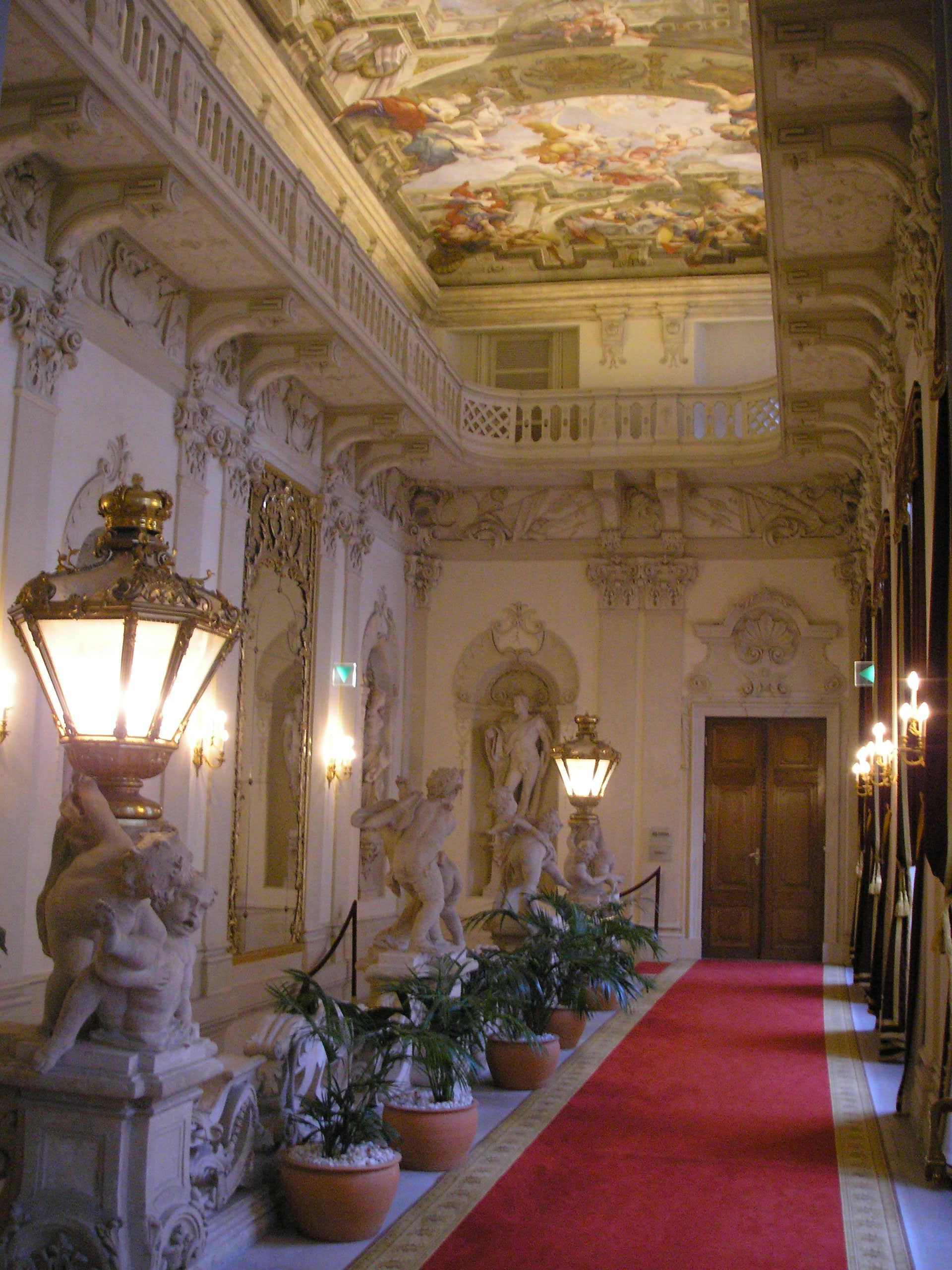 Interior view of the Palais Kinsky in Vienna. Constructed in the baroque era for the noble Kinsky von Wichnitz und Tettau family.